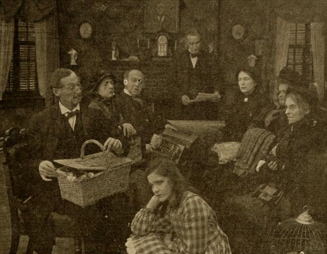 Viola Dana and cast in the 1918 film, "Breakers Ahead"